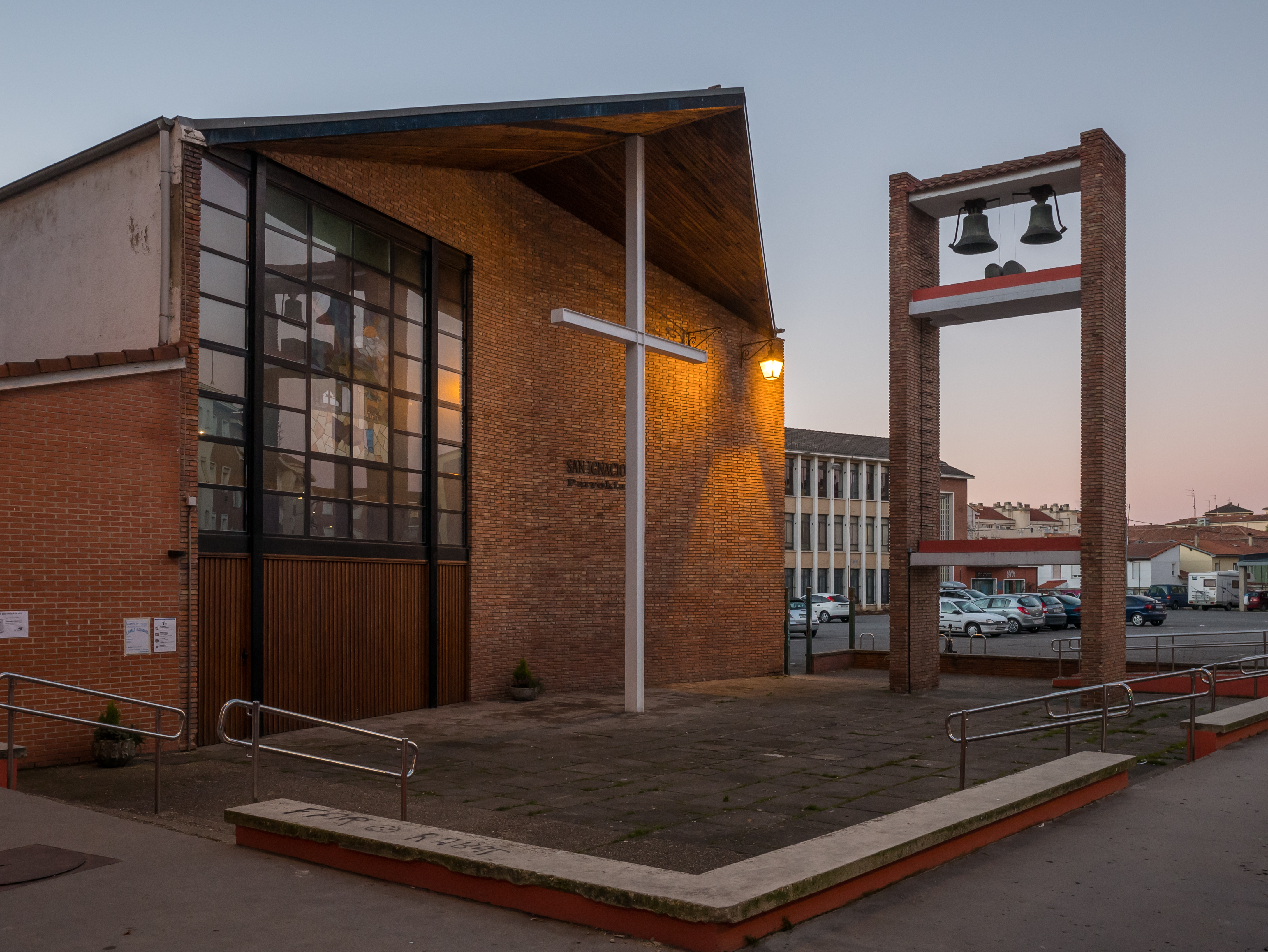 Church "San Ignacio" in the Adurza quarter. Vitoria-Gasteiz, Basque Country, Spain